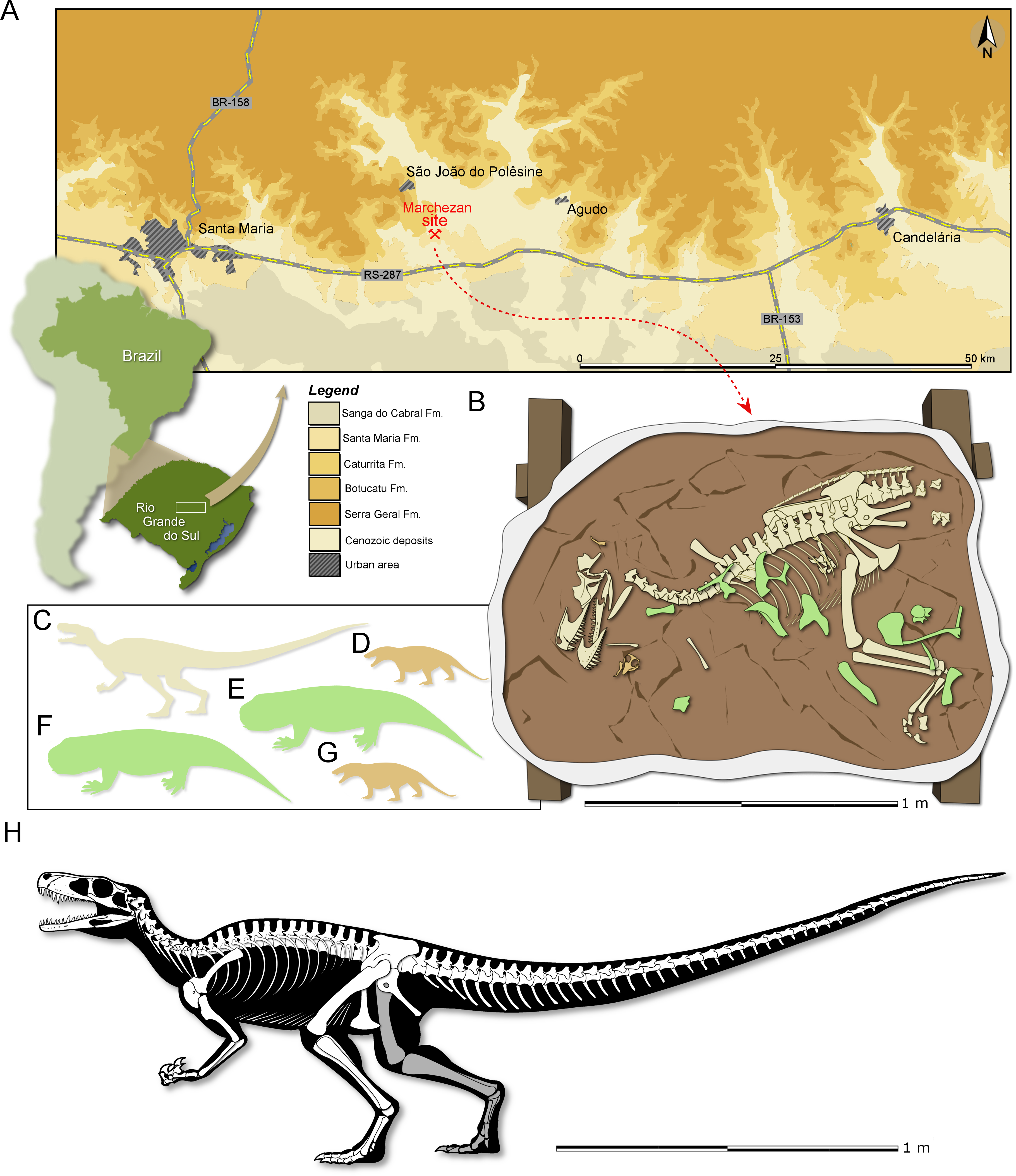 Figure 1: Study area and specimen. (A) Location map of the Marchezan site and the surface distribution of the geologic units in the area. (B) Schematic drawing of CAPPA/UFSM 0009 and associated specimens in the rock block before its final preparation. Silhouette of the associated individuals: (C) herrerasaurid; (D) cynodont/1; (E) rhynchosaur/1; (F) rhynchosaur/2 (collected near to the rock block); (G) cynodont/2. Silhouettes not to scale. (H) Reconstructed skeleton of Gnathovorax cabreirai.